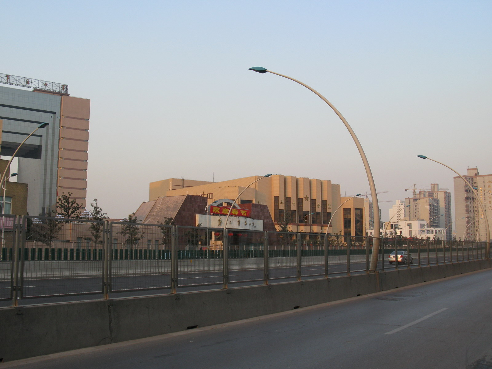 The Second Military Medical University, Xiangyin Road